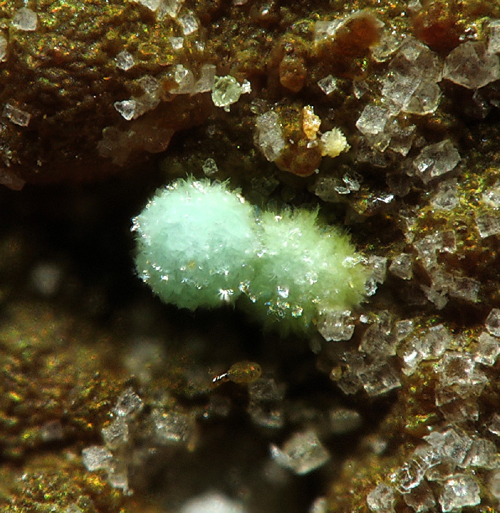 Barahonaite-(Al) Locality: Dolores prospect, Pastrana, Mazarrón-Águilas, Murcia, Spain (Locality at ) Picture width 0,4 mm. Collection and photograph Christian Rewitzer